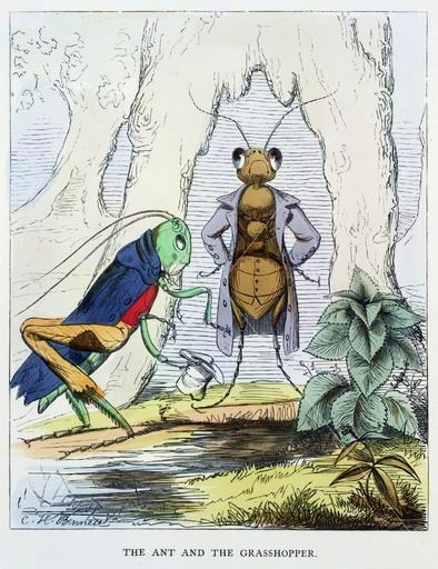 Illustration of the Aesop's Fable: The Ant and the Grasshopper from Fables of Æsop and others, translated into human nature